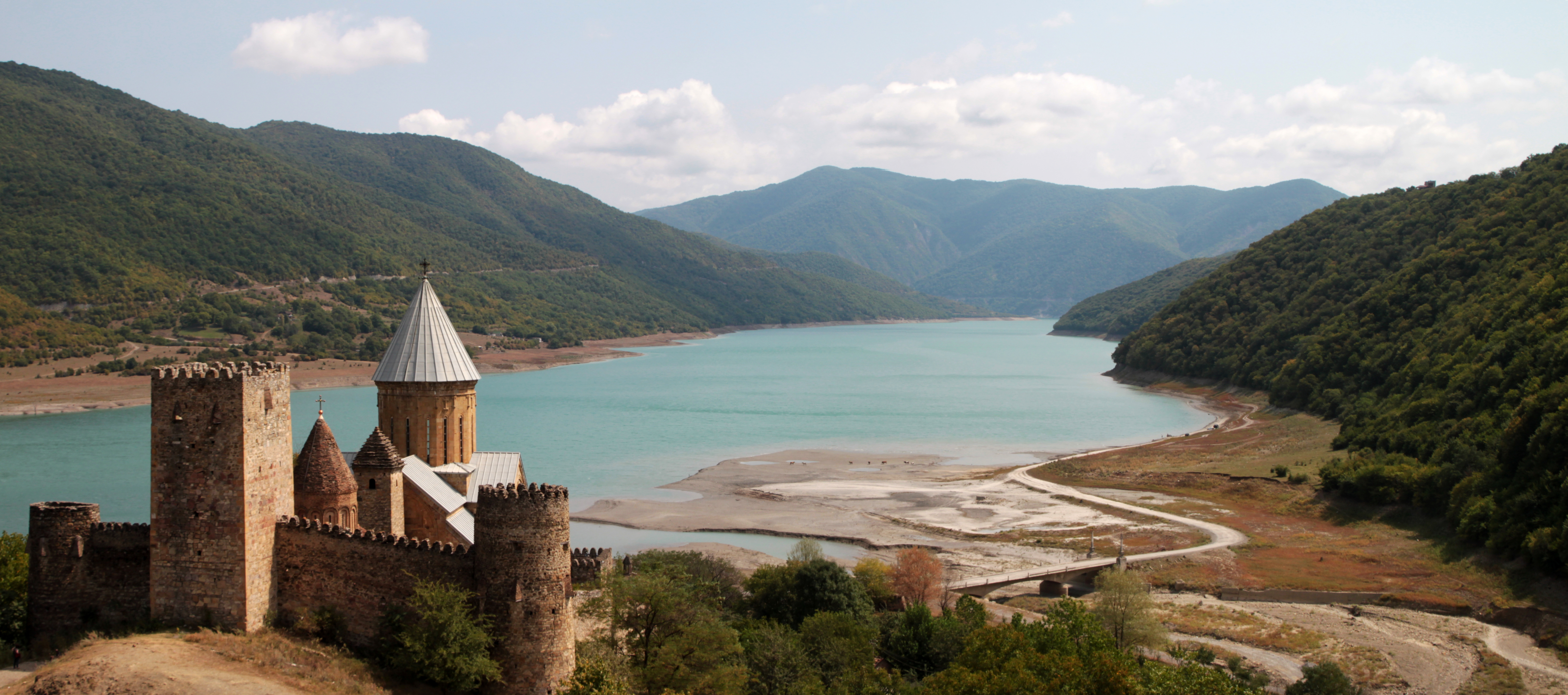 Ananuri Monastery, Goergia